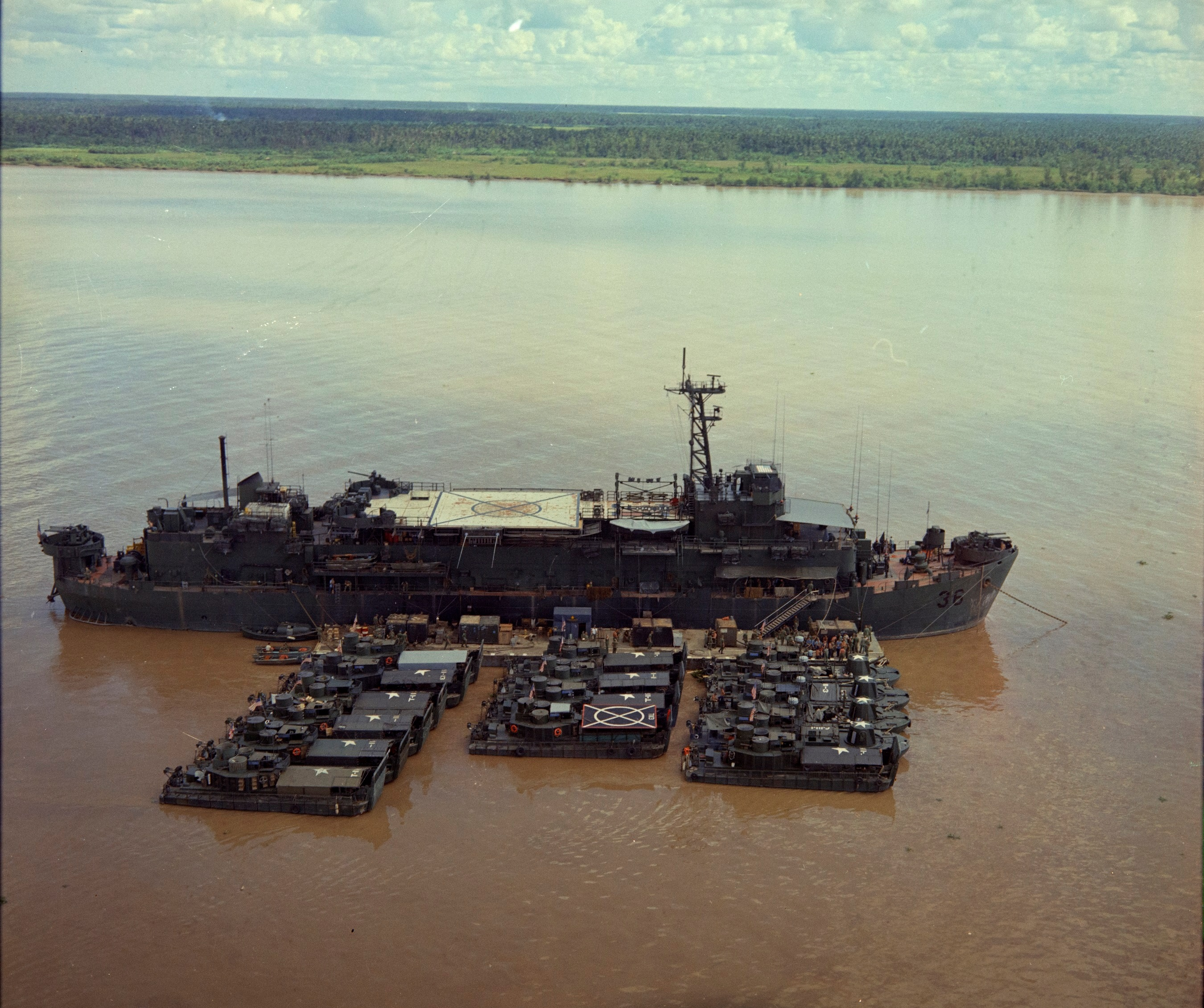 My Tho River, Republic of Vietnam; The US Naval Ship, Benewah, is used by the Mobile Riverine Force (MRP) as a troop ship. The Benewah is also equipped with a helicopter landing pad and floating piers. The floating piers are used as docks for smaller landing craft boats. The smaller boats are used to patrol the waters and make land assaults.